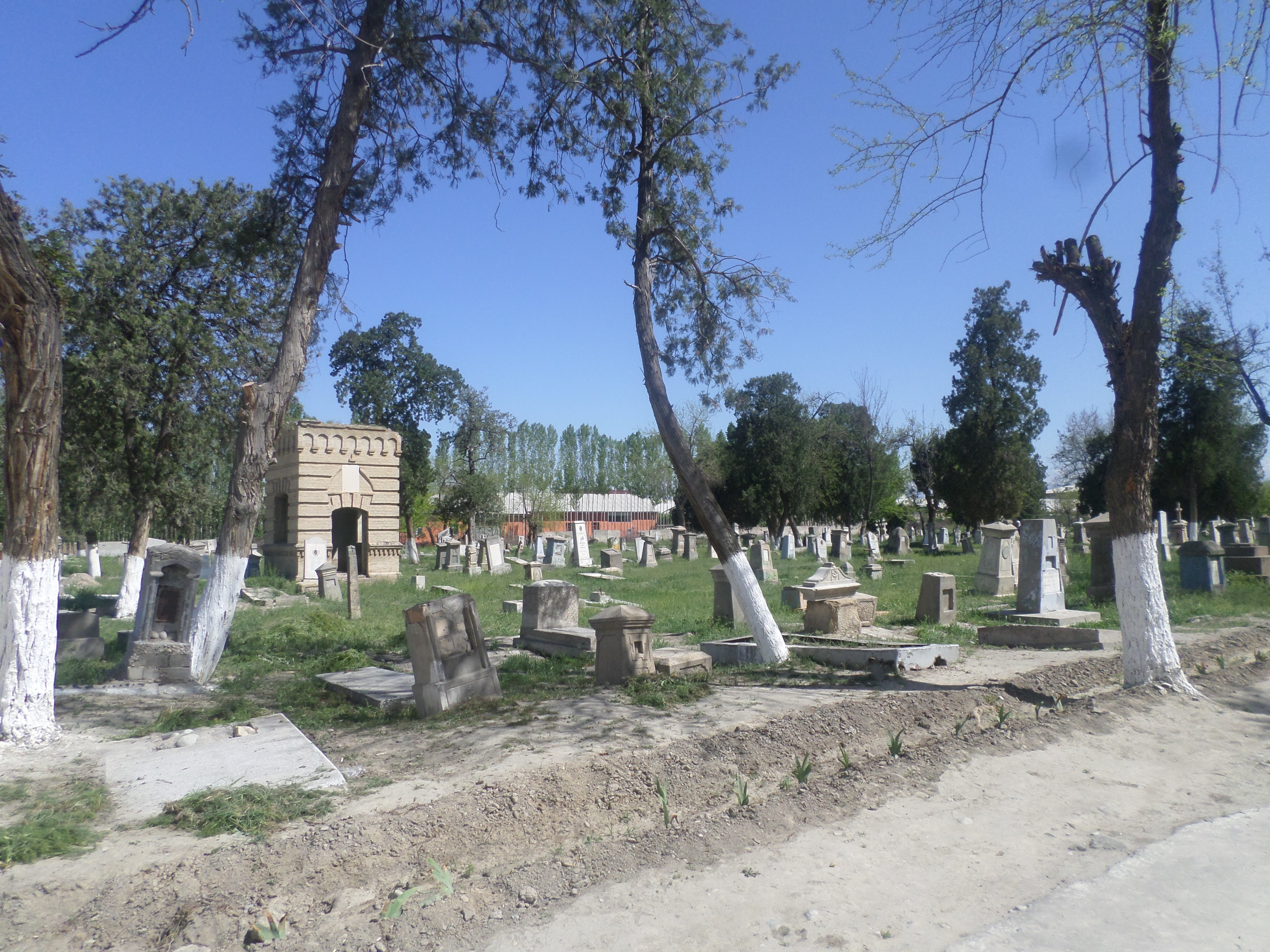 Chapel of Alexander Nevskogo